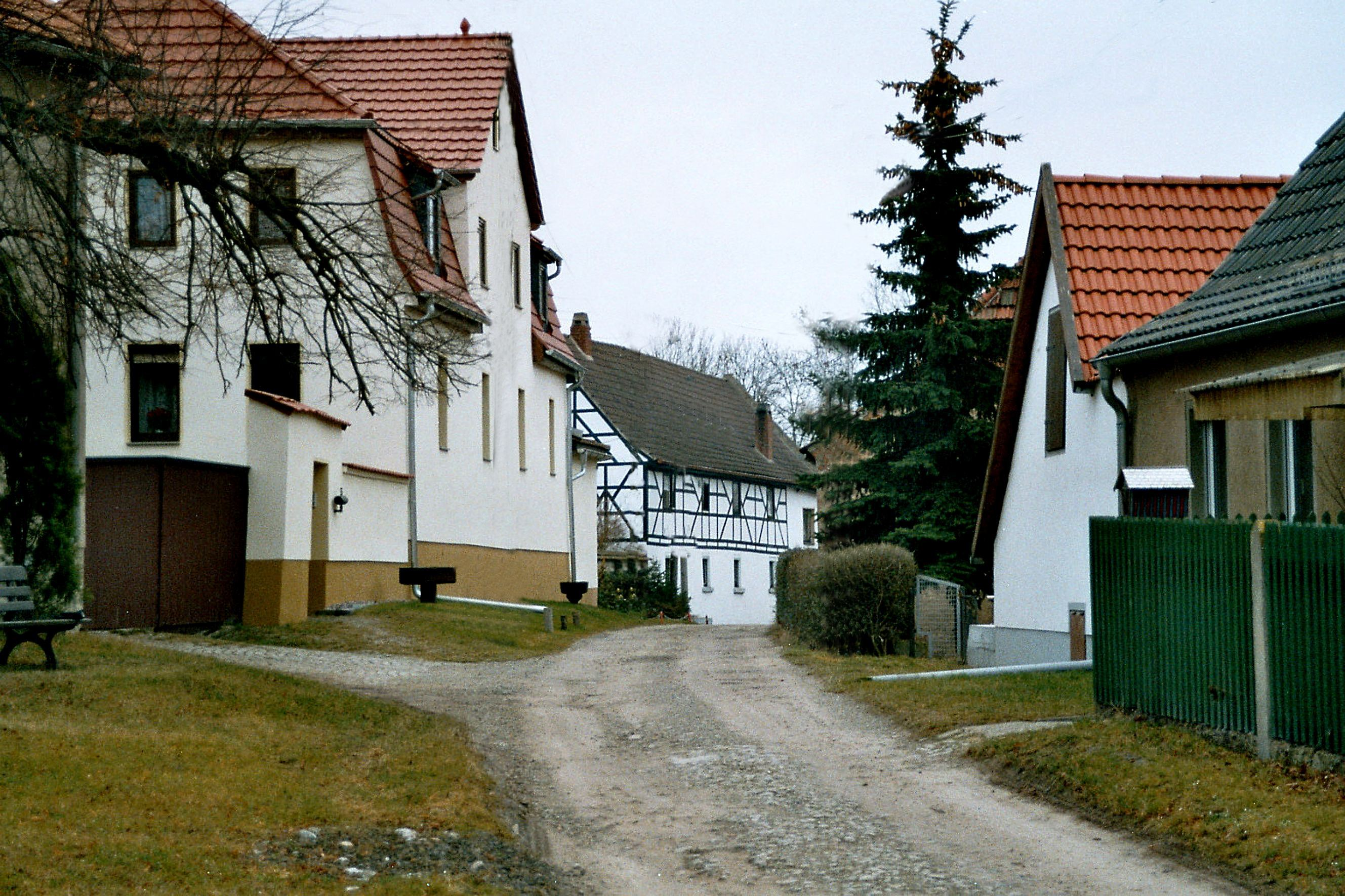 The street "Kirchgasse"